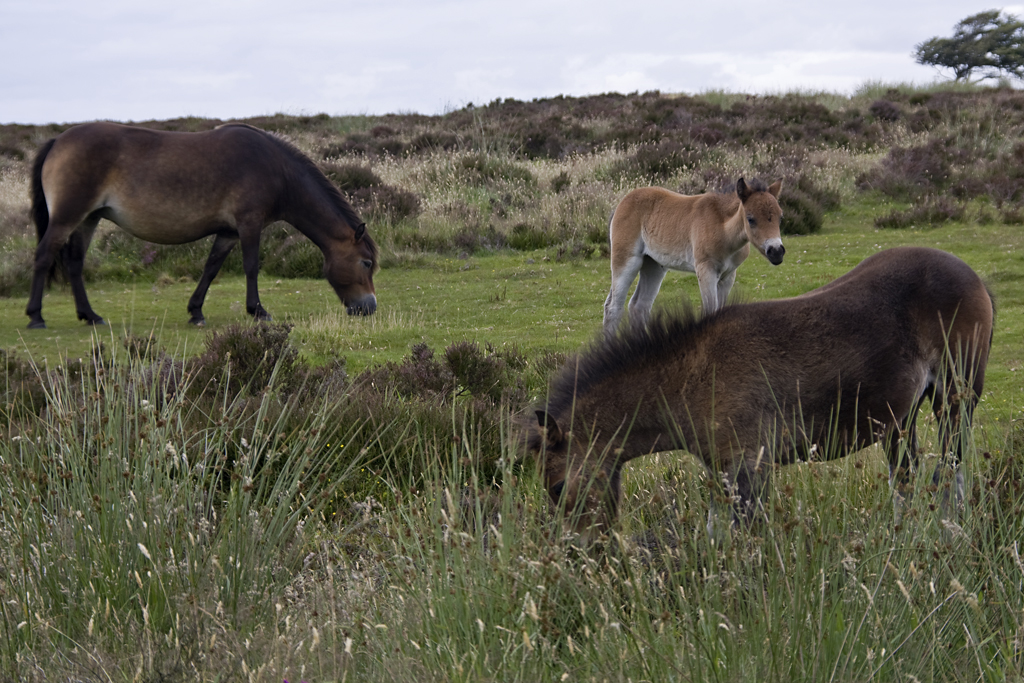 Images of a short visit to Exmoor.